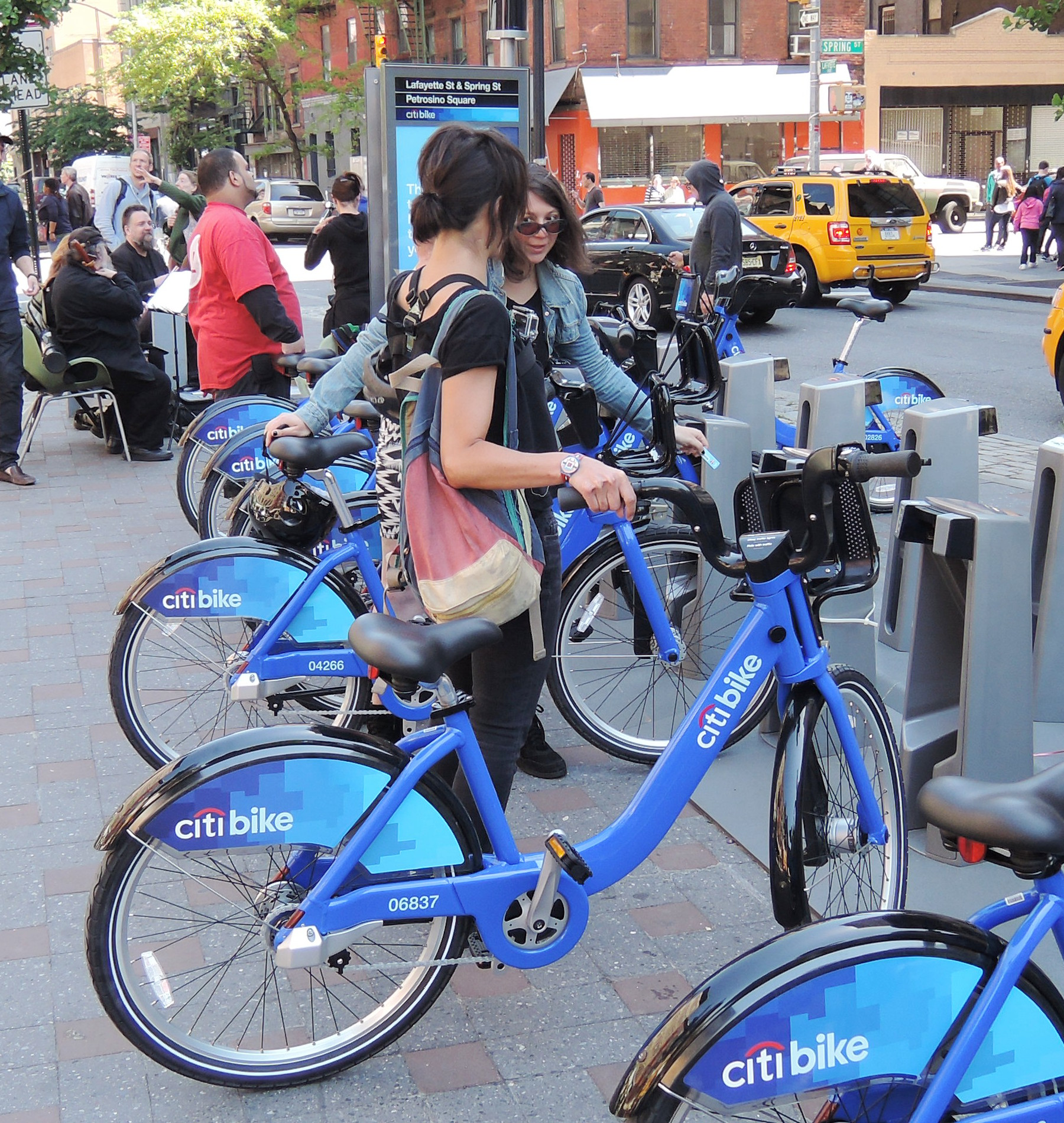 Looking northeast as customers pull their bikes on opening day.